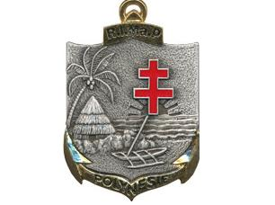 Regimental badge of the Regiment of Marines in the Pacific-Polynesia (France).